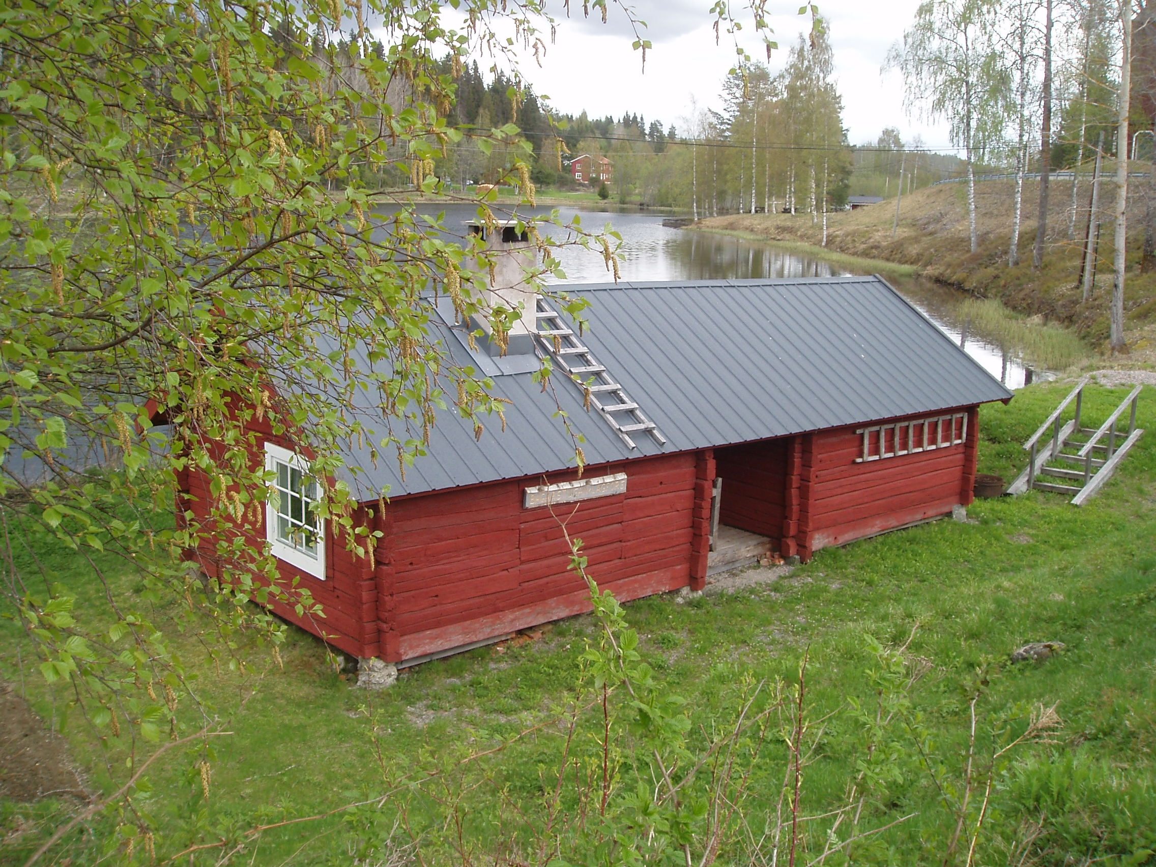 Bakers cottage or bakehouse — Lagfors, Sweden.